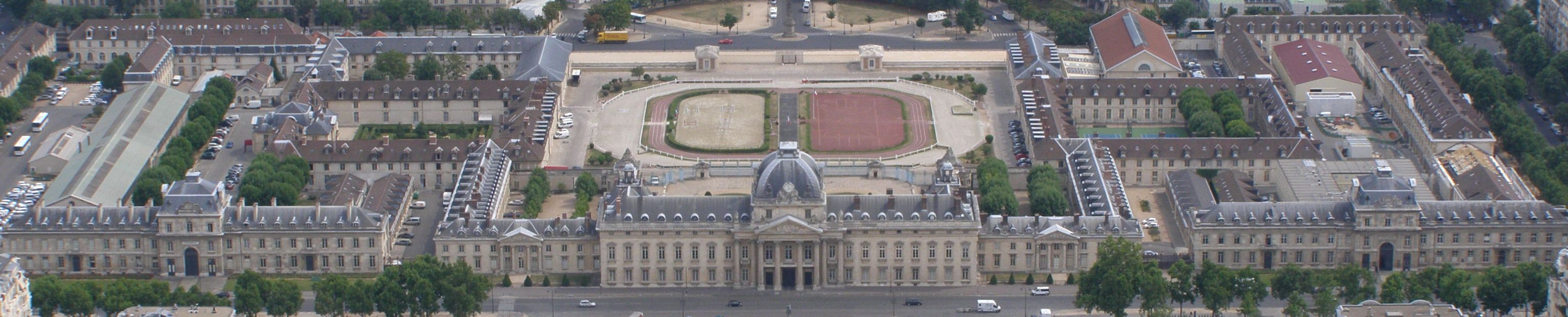 The École Militaire, in Paris, France.